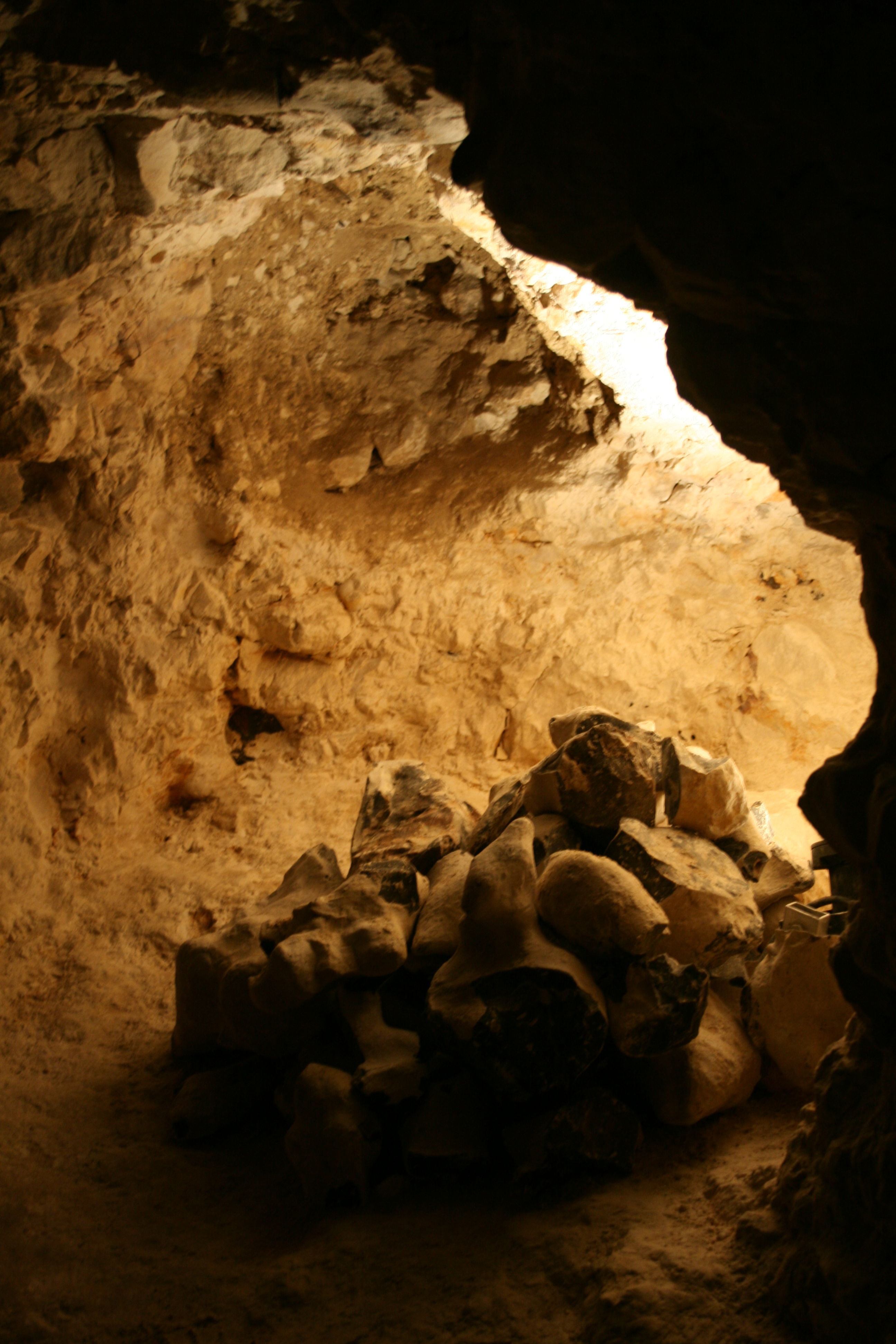 Spiennes (Belgium), neolithic mines of flint of the "Camp à Caillaux".